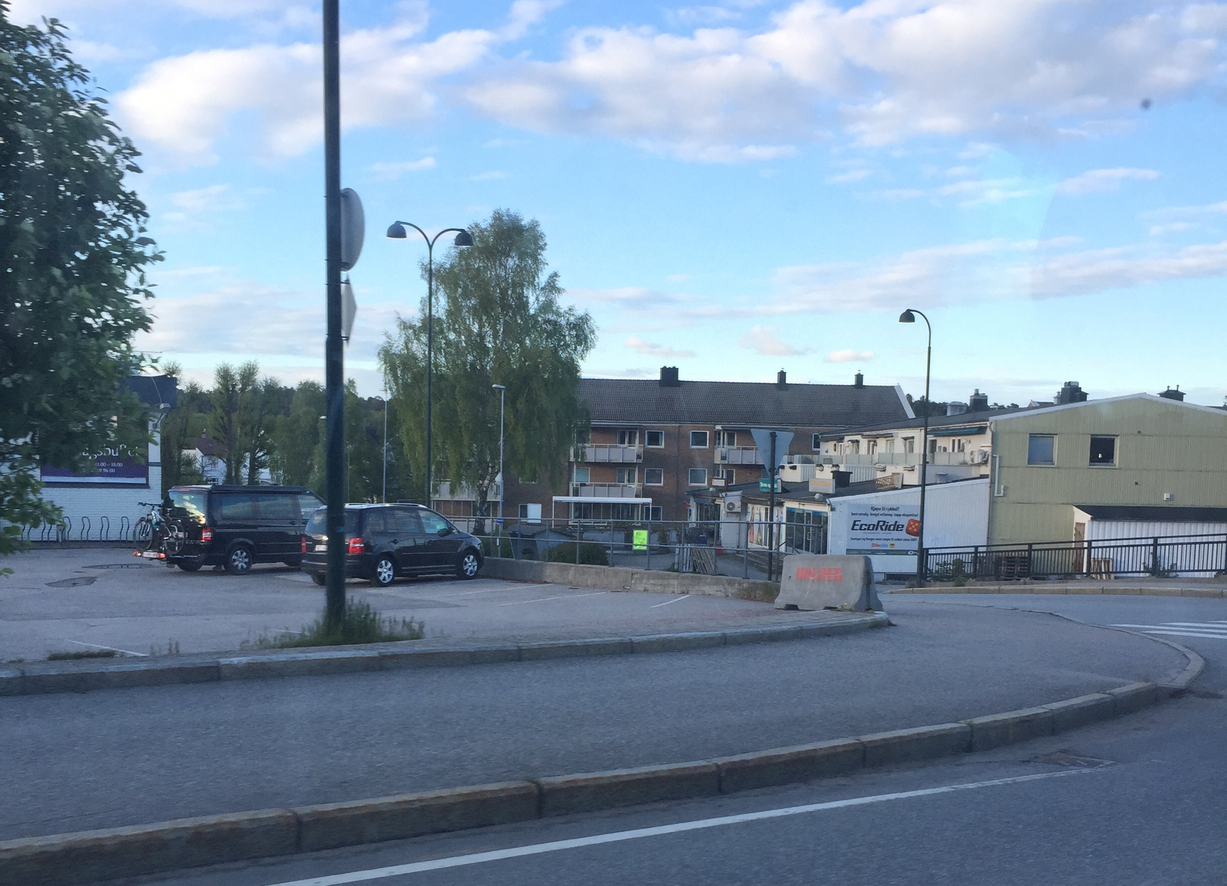 Grim Torv, Kristiansand